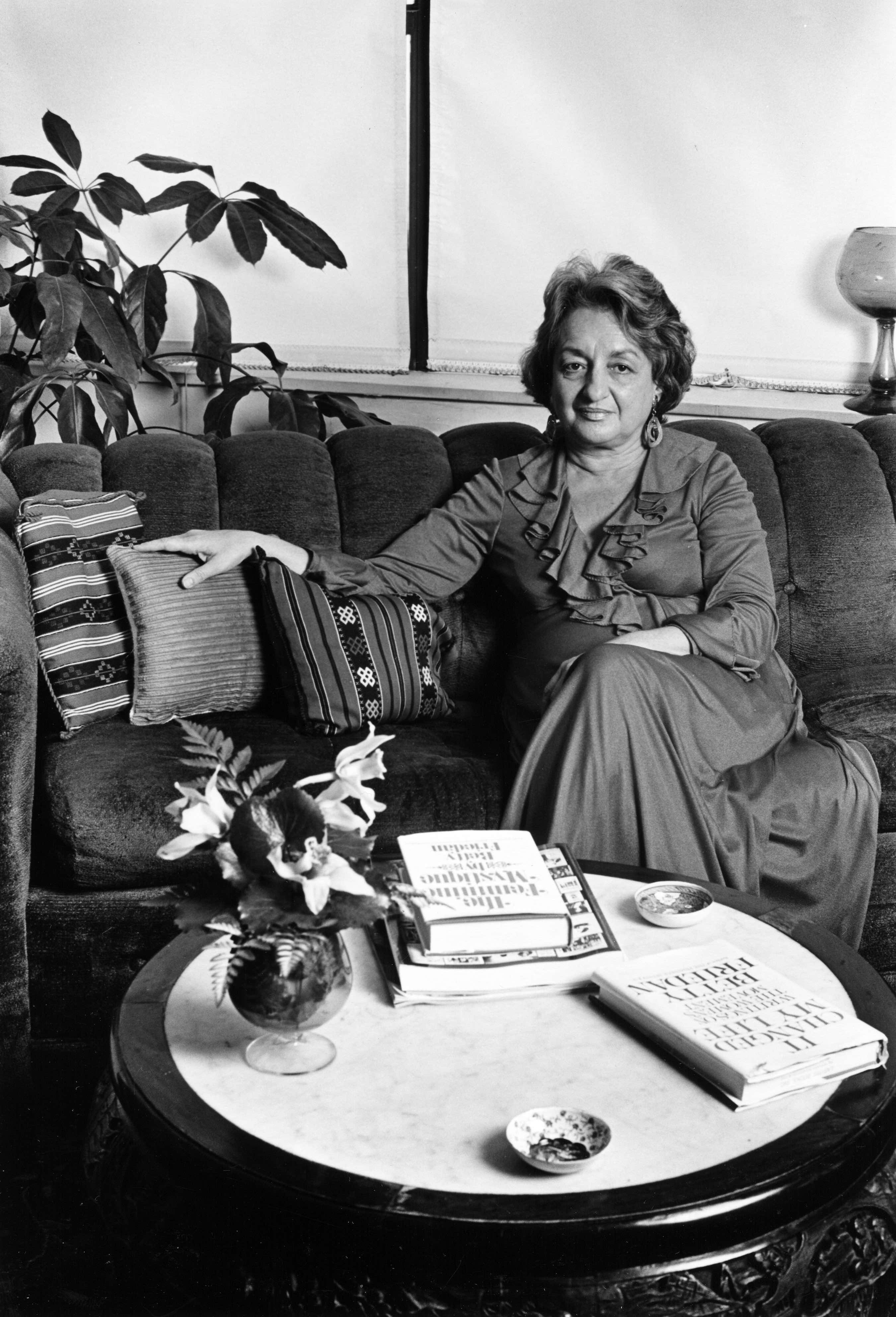 Betty Friedan as photographed in her home ©Lynn Gilbert, 1978.